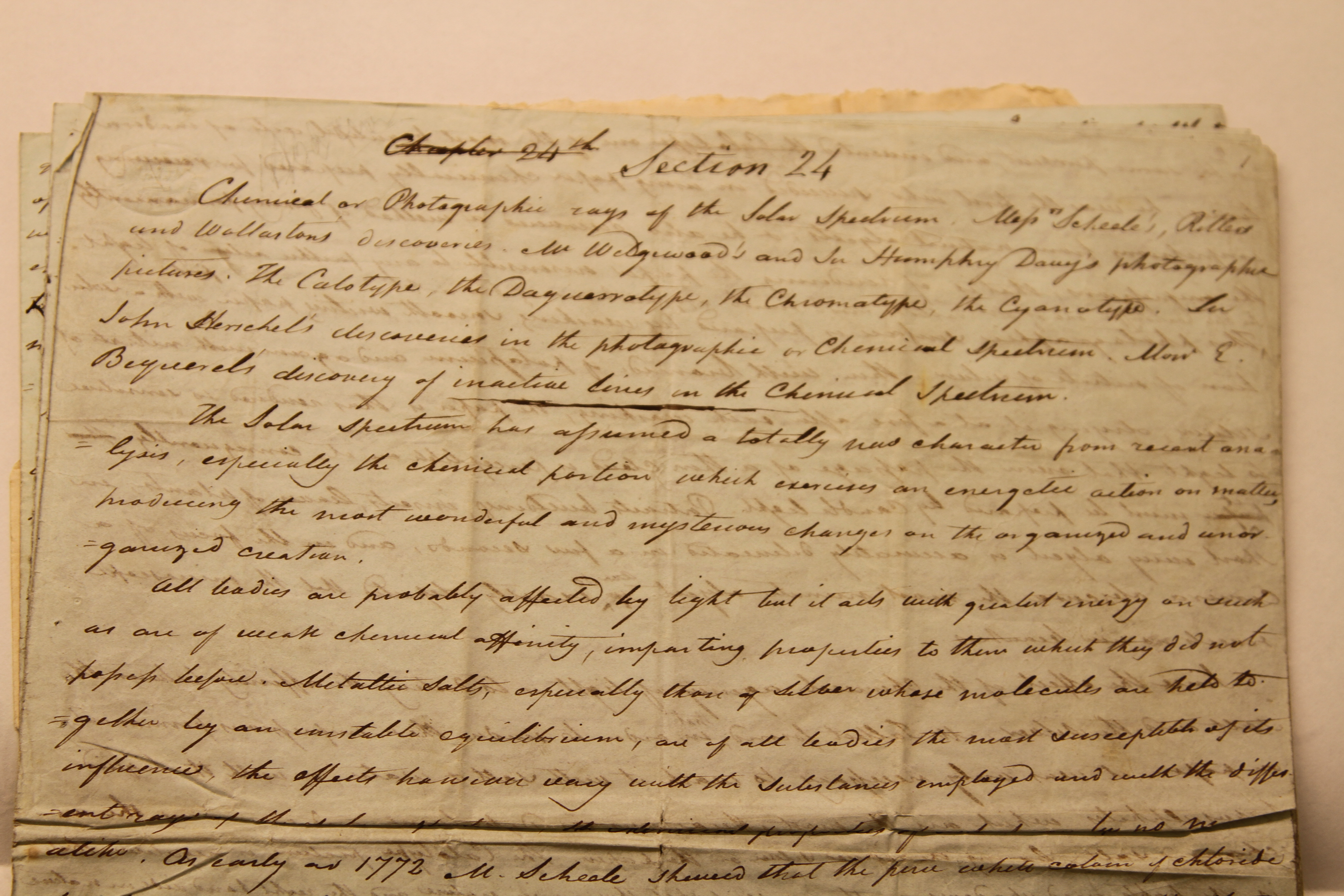 Part of a page from Mary Somerville's manuscript of her book On the Connexion of the Physical Sciences. "Chapter 24" is crossed out at the top and replaced by "Section 24". The text deals with the Solar Spectrum. From a collection of documents shelfmarked Dep. c. 352.